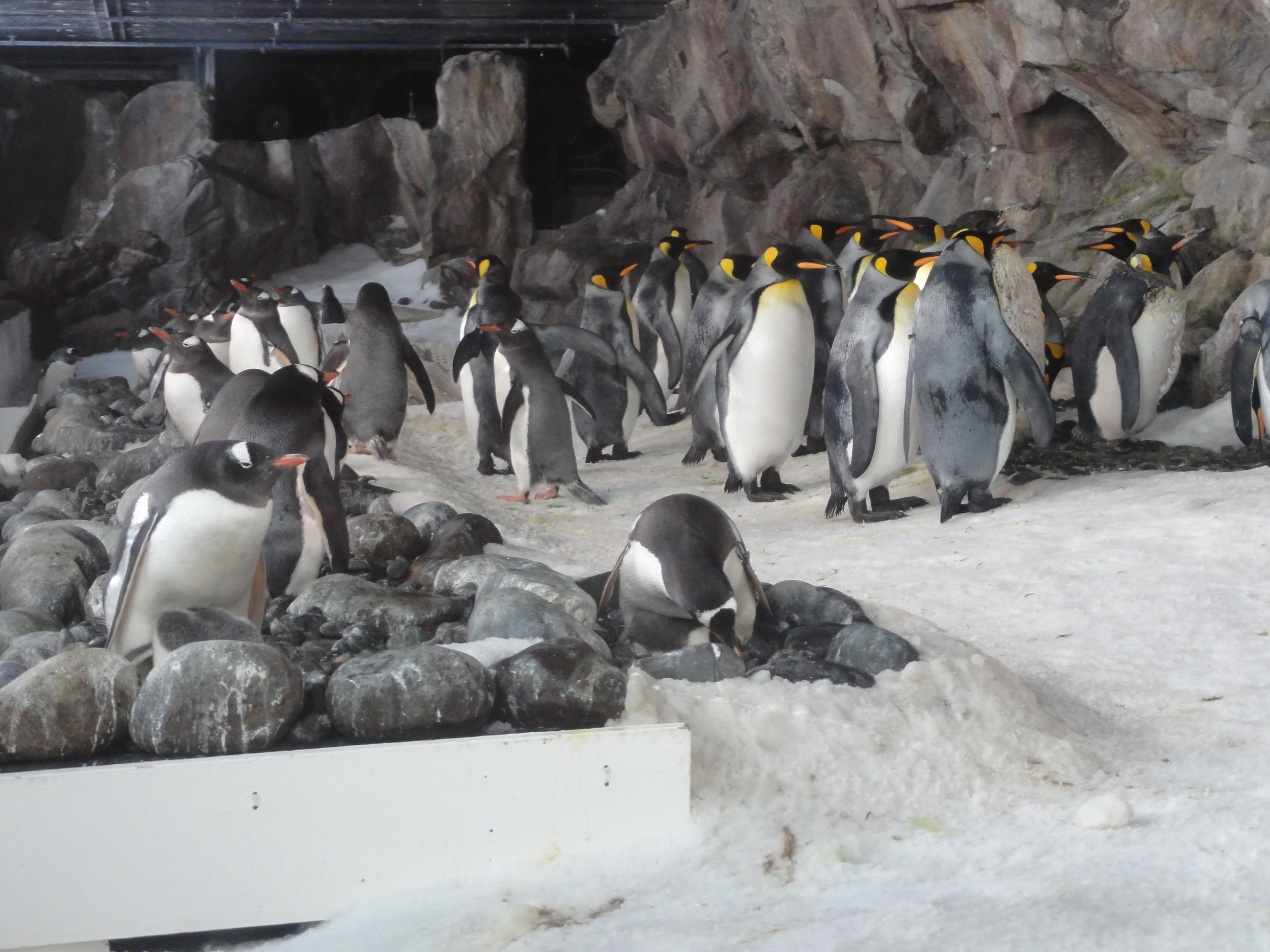 penguin colony (King and Gentoo penguins) at Kelly Tarlton's Sea Life Aquarium, Auckland, NZ